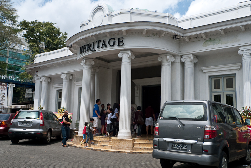 One of the many factory outlet stores in Bandung